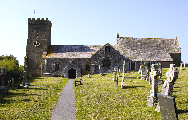 Photograph